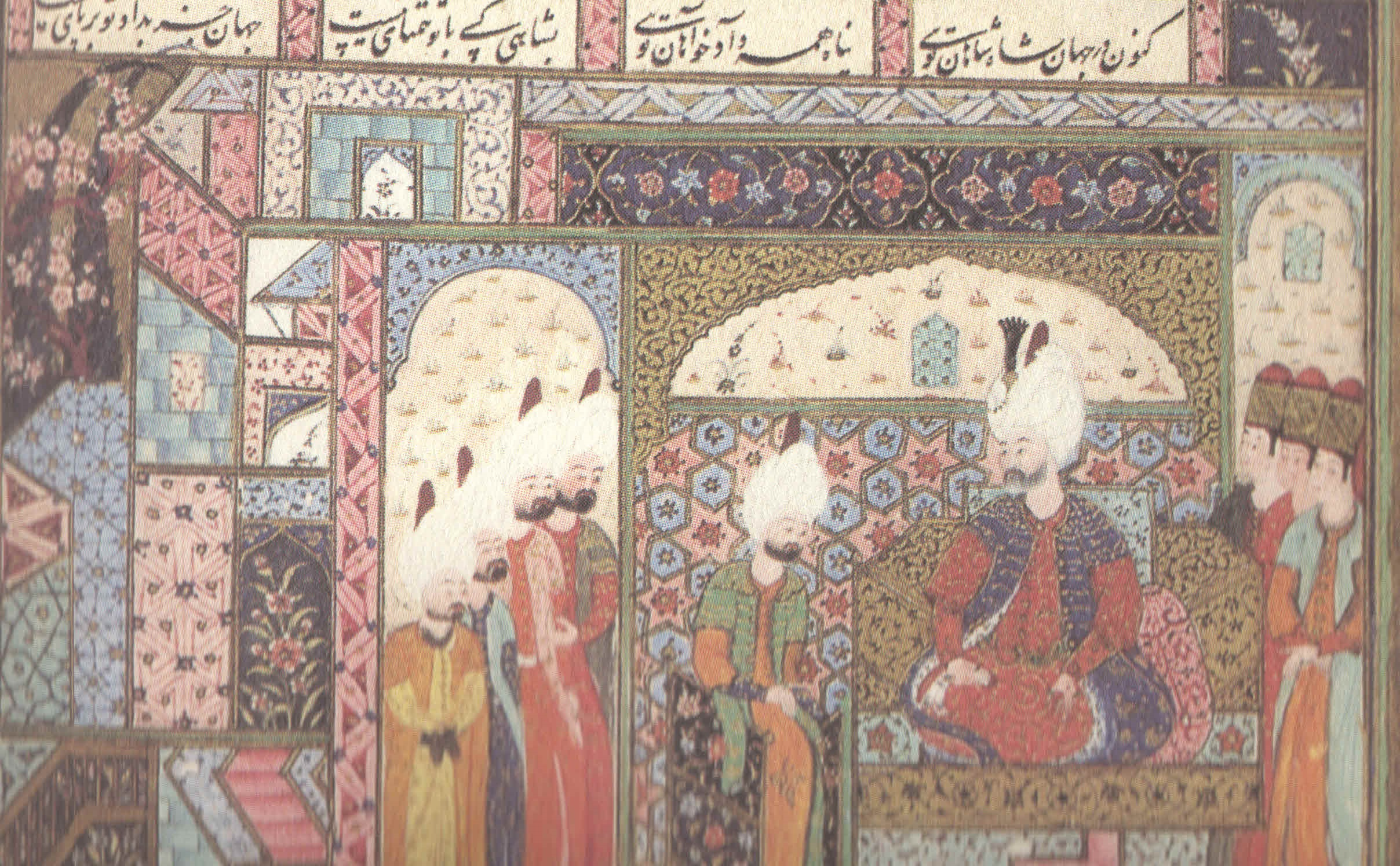 Shah Tahmasb's brother Elkas and Suleiman the Magnicifient (1548)